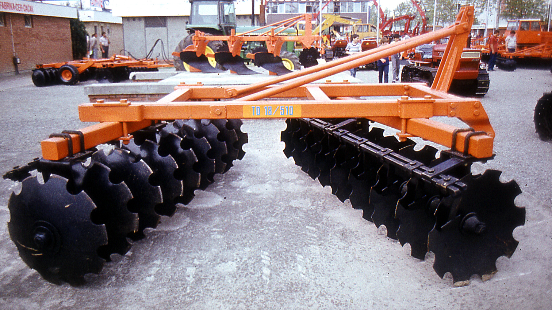 Asymmetric disk harrows (photo: Mihailo Grbić)